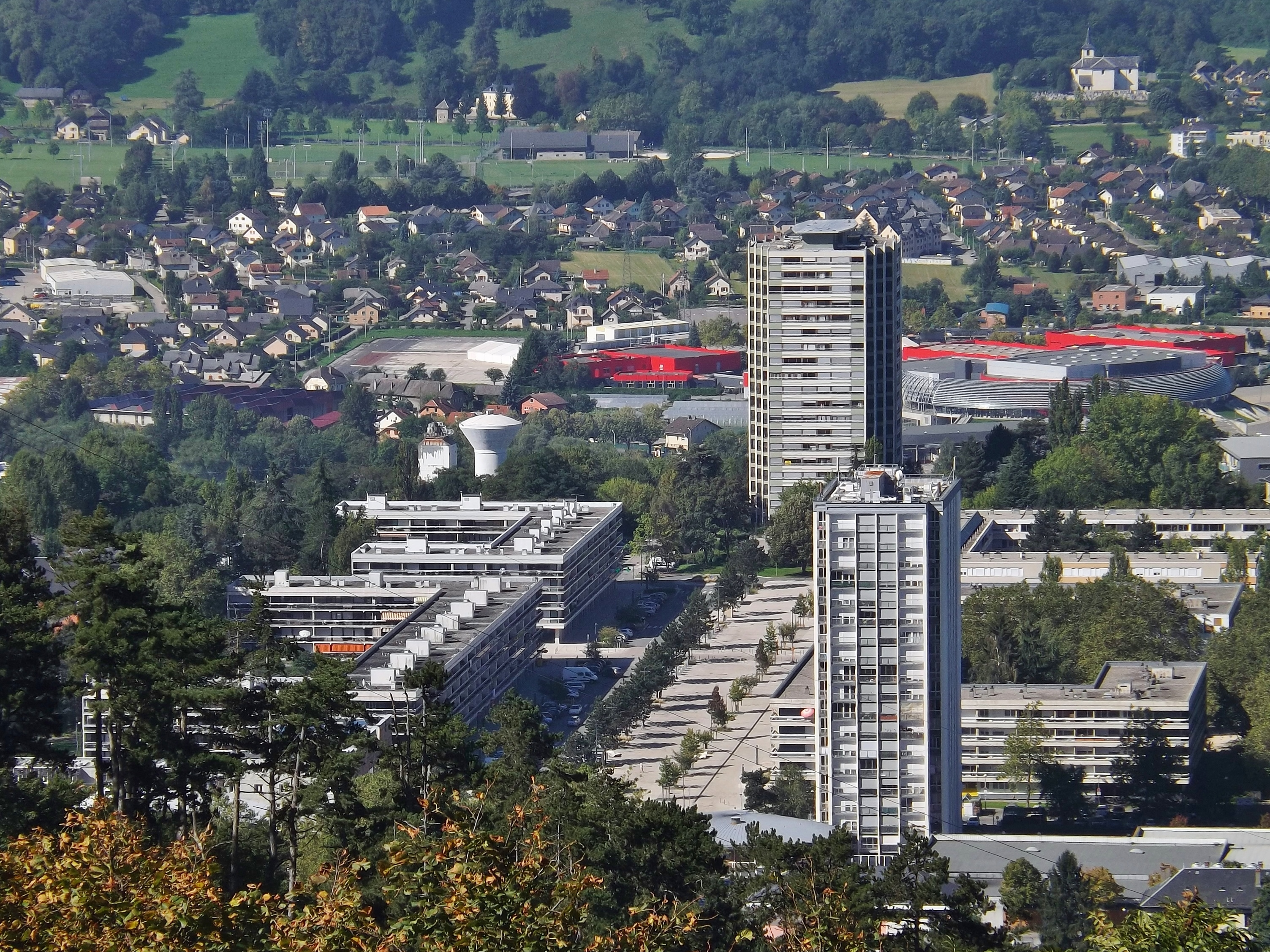 Panoramic sight on city of Chambéry, Savoie, France. Picture taken from Les Monts hill over the Hauts-de-Chambéry towers, with at the background the Bissy neighborhood and its church.